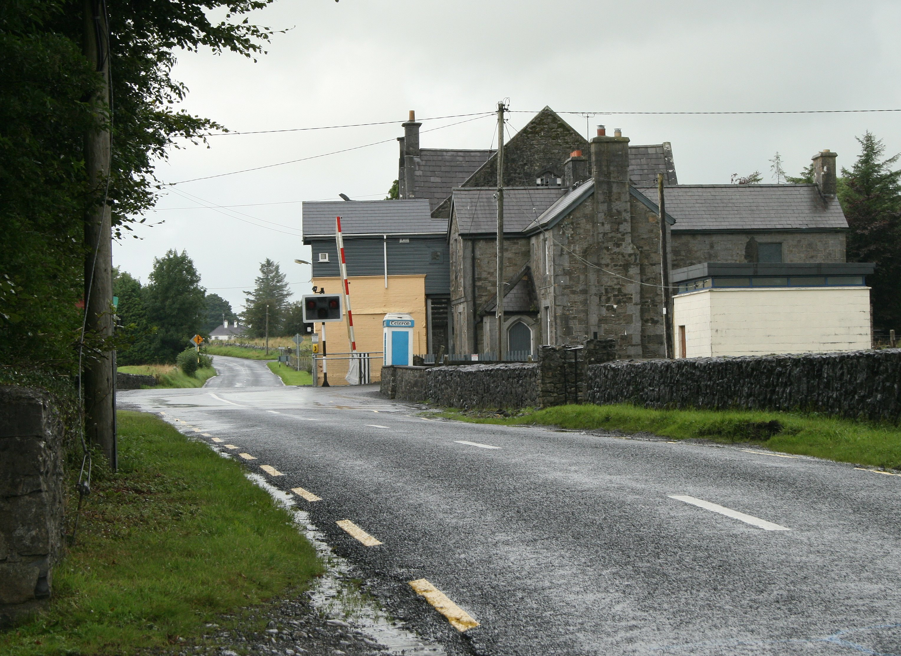 The R359 past Woodlawn Railway Station in County Galway, Ireland.